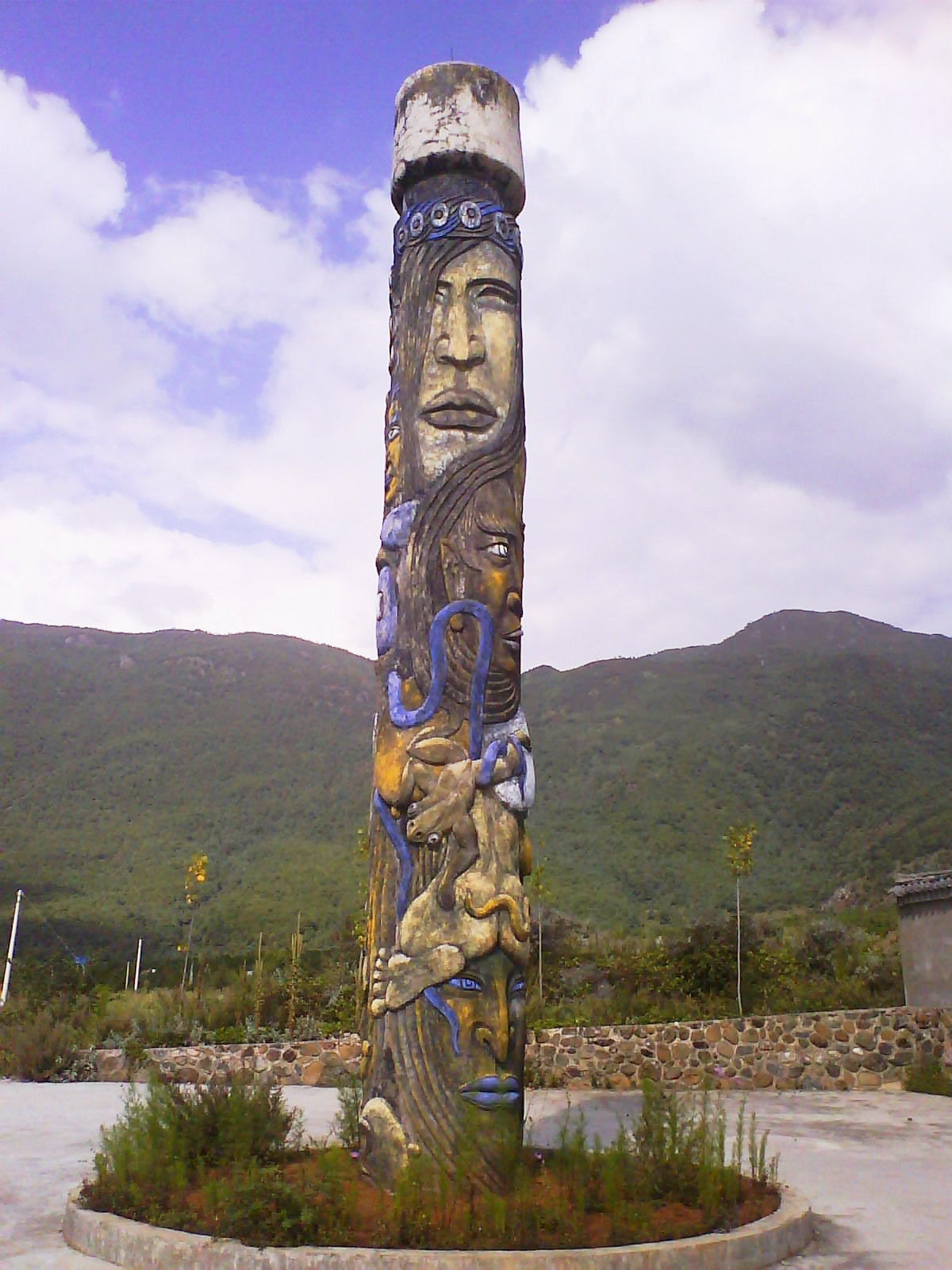 Dongba totem in a cult place near Lijiang, Yunnan province, People Republic of China.